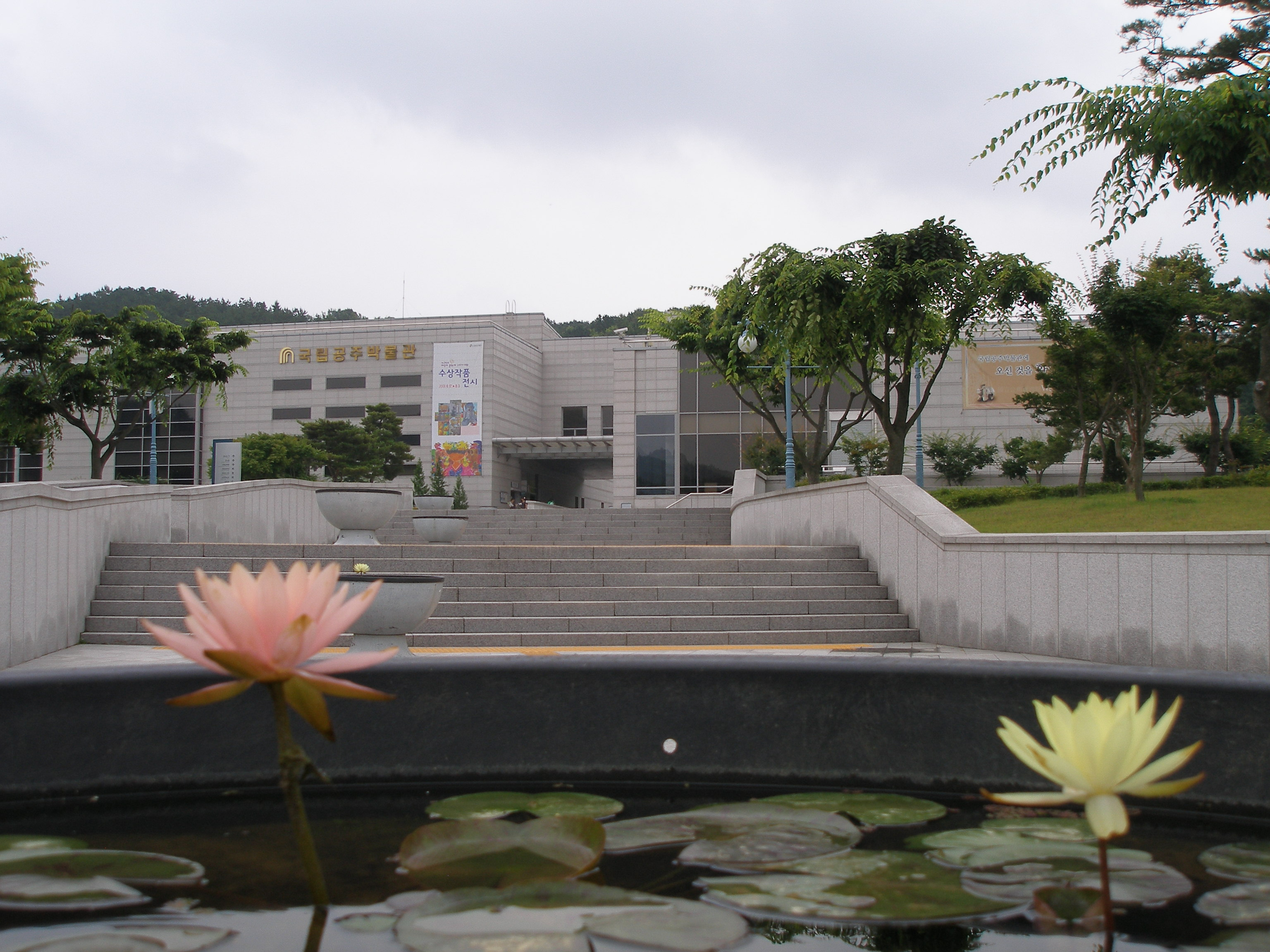 Gongju National Museum, Gongju, South Korea.